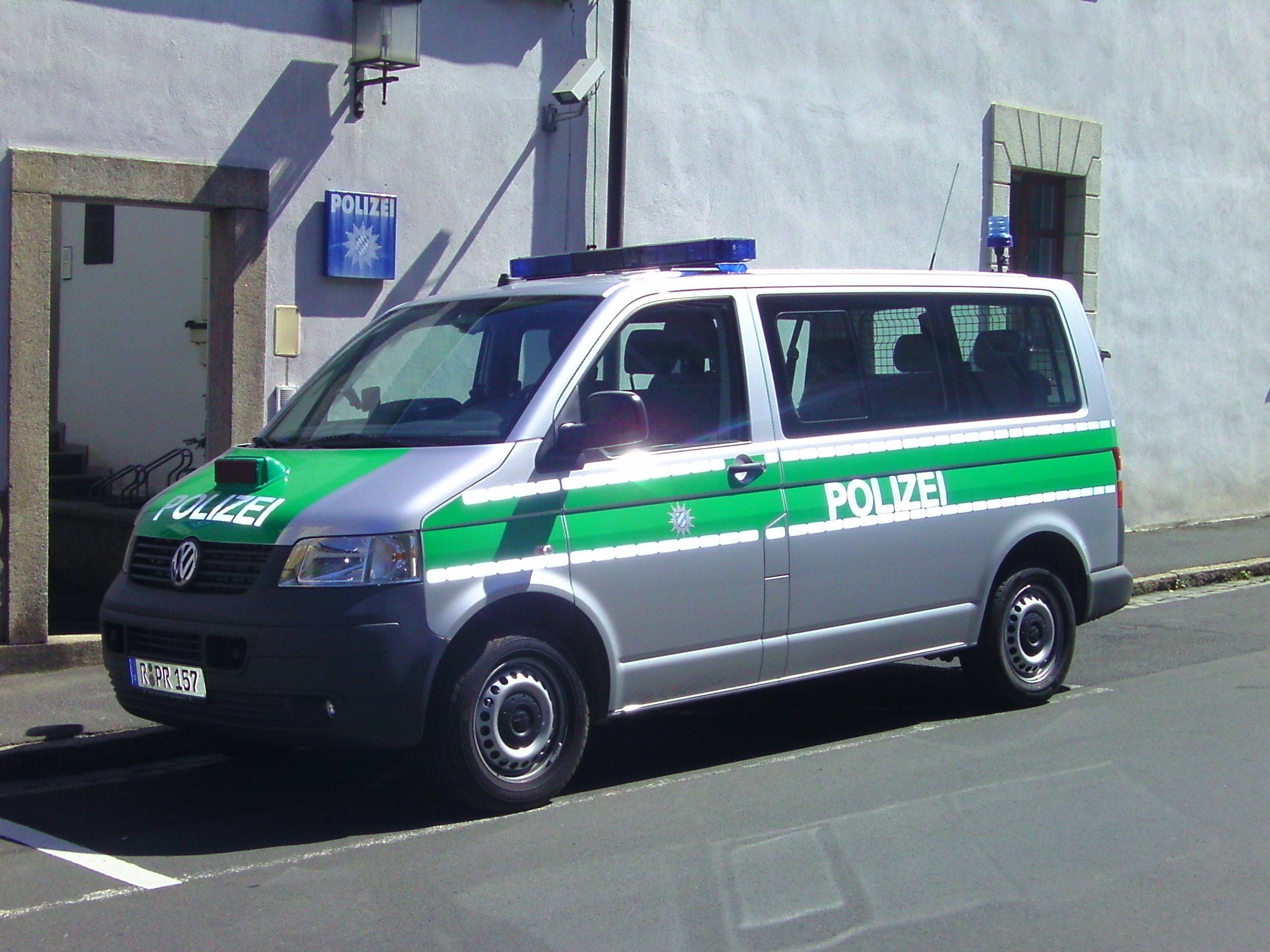 Police car of the Bavarian State Police